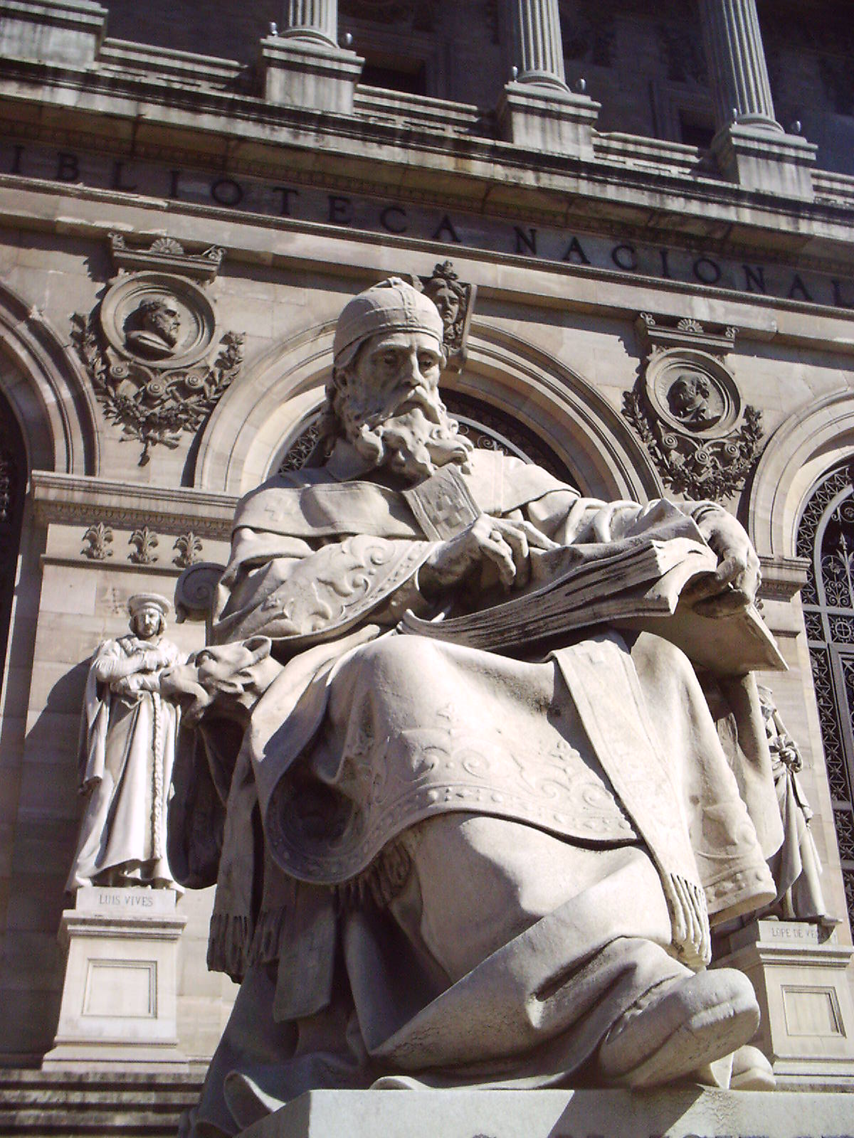 Statue of Isidore of Seville (c.560–636) at the entrance staircase of the National Library of Spain, in Madrid. Sculpted in Italian white marble by José Alcoverro y Amorós (1835–1910) in 1892.